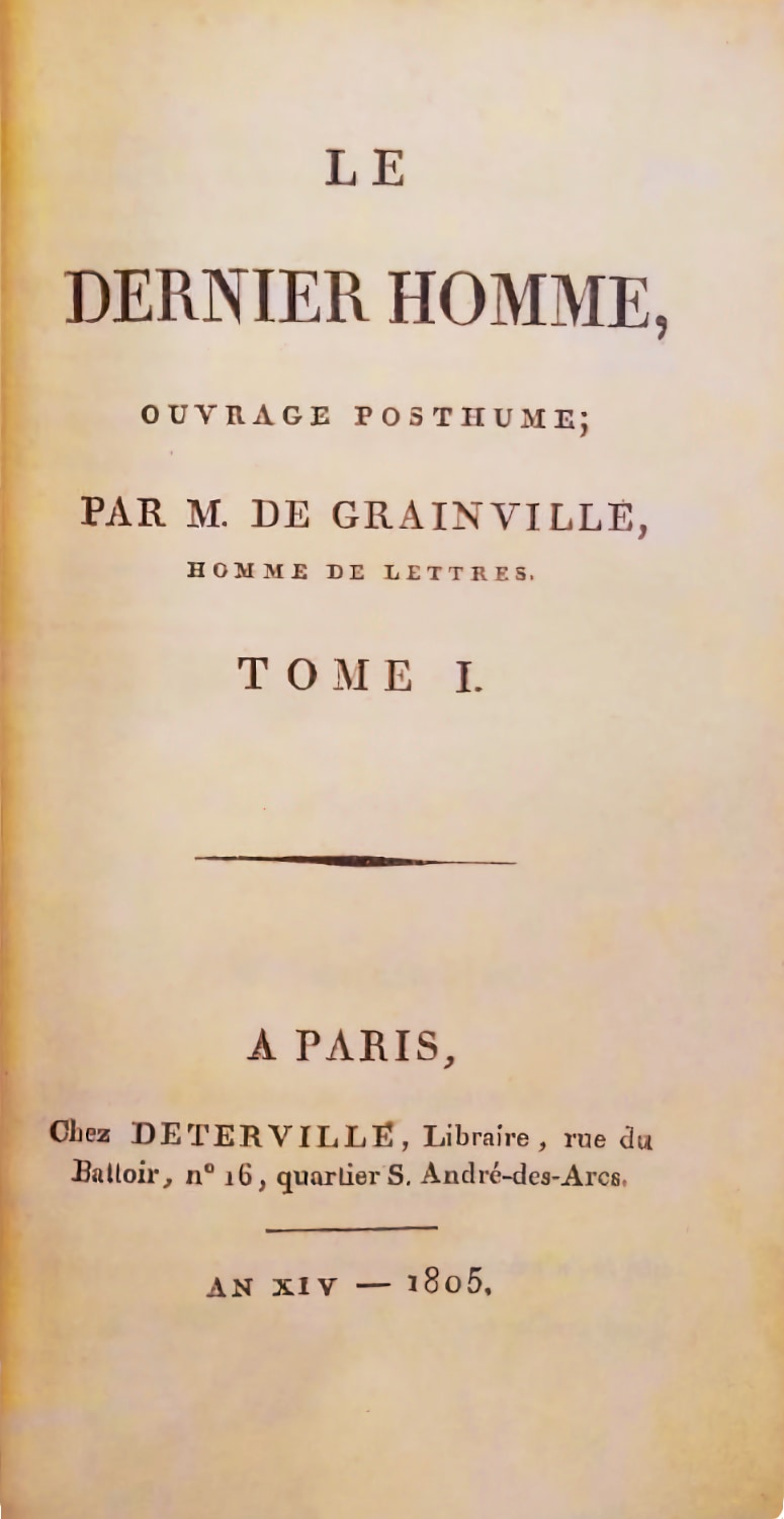 Title page of the 1st edition of The Last Man by Jean-Baptiste Cousin de Grainville, Paris: Deterville, 1805